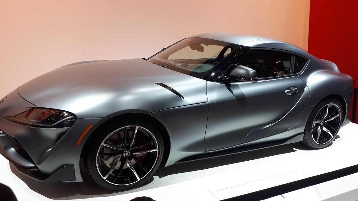 The new Toyota Supra of 2019